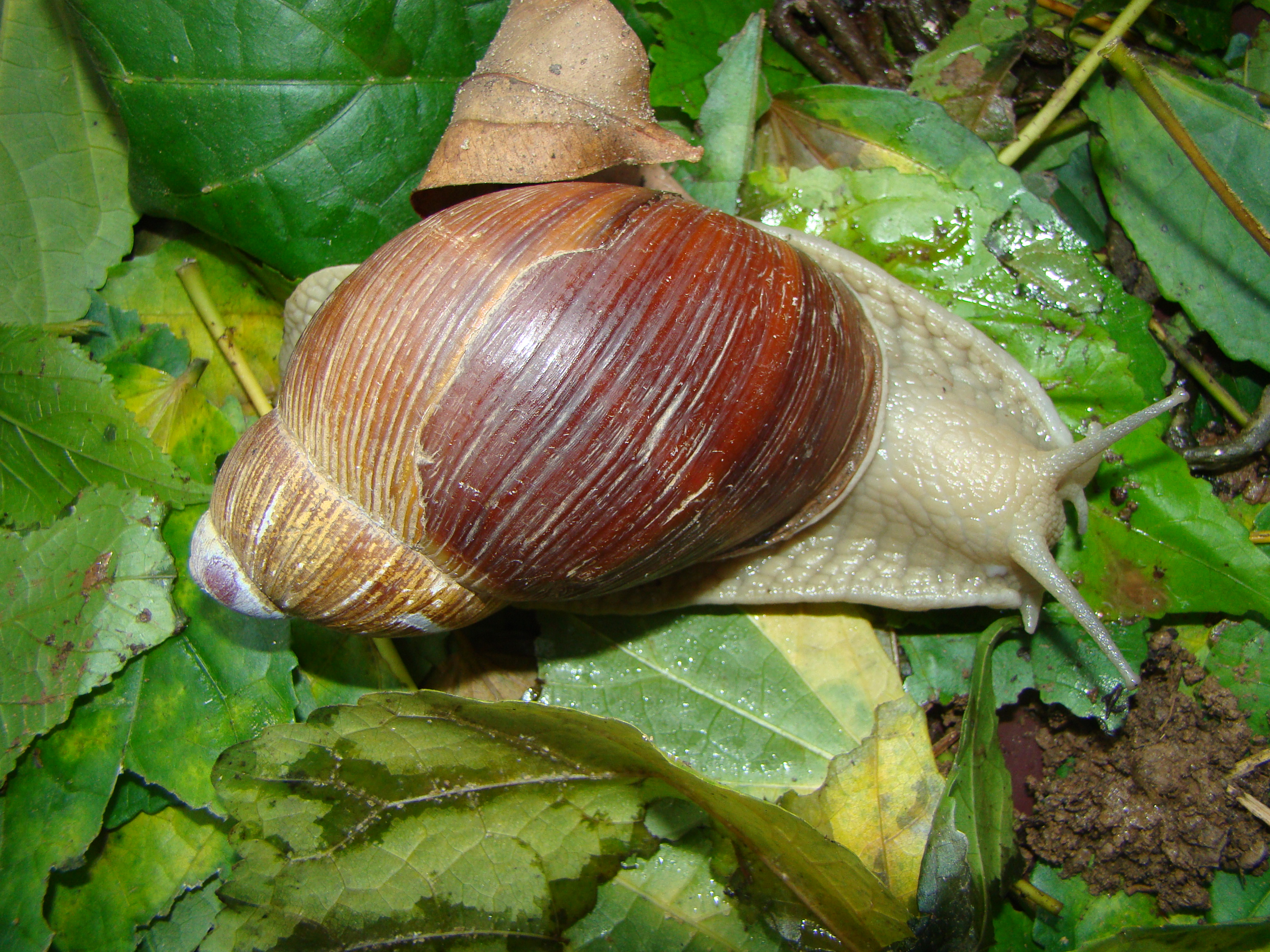 A live specimen of Megalobulimus paranaguensis from Santos, São Paulo, Brazil